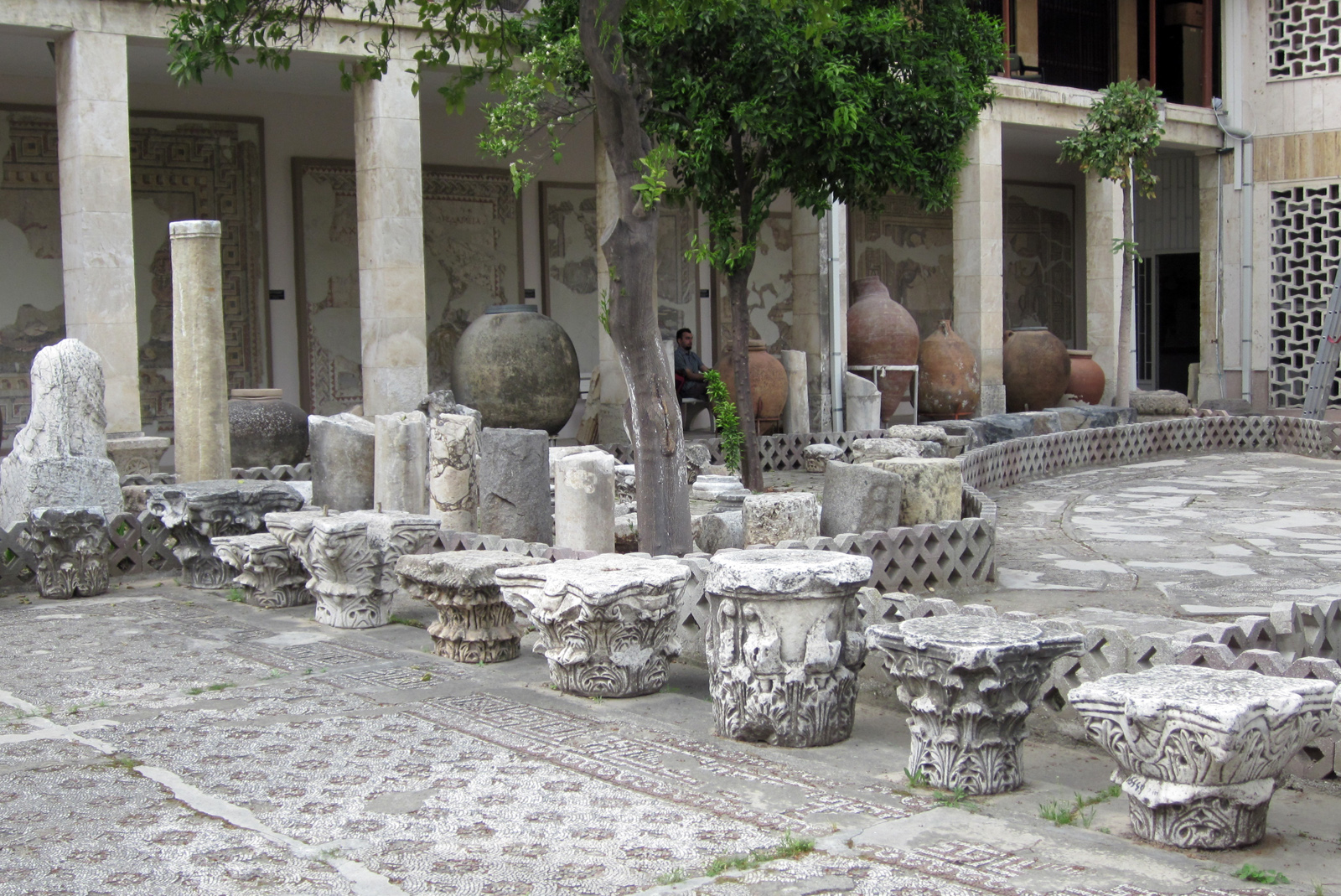 Photograph from Antakya Archaeological Museum